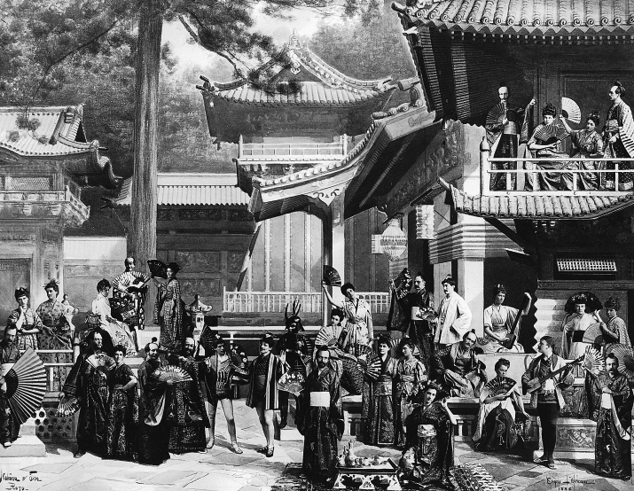 The Mikado, performed by the Castanet Club in Montreal, Quebec, Canada in 1886. Composite photograph. Silver salts on glass - Gelatin dry plate process.